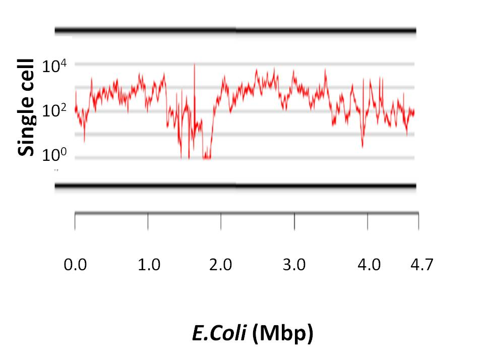 a graph represent the single cell coverage